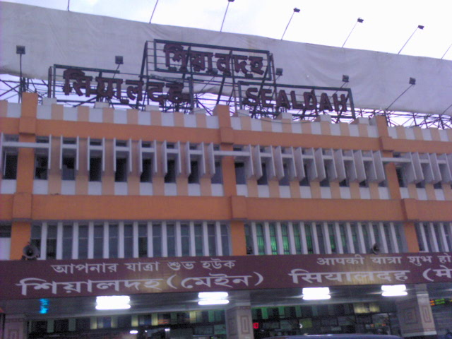 Sealdah_North_Outlook